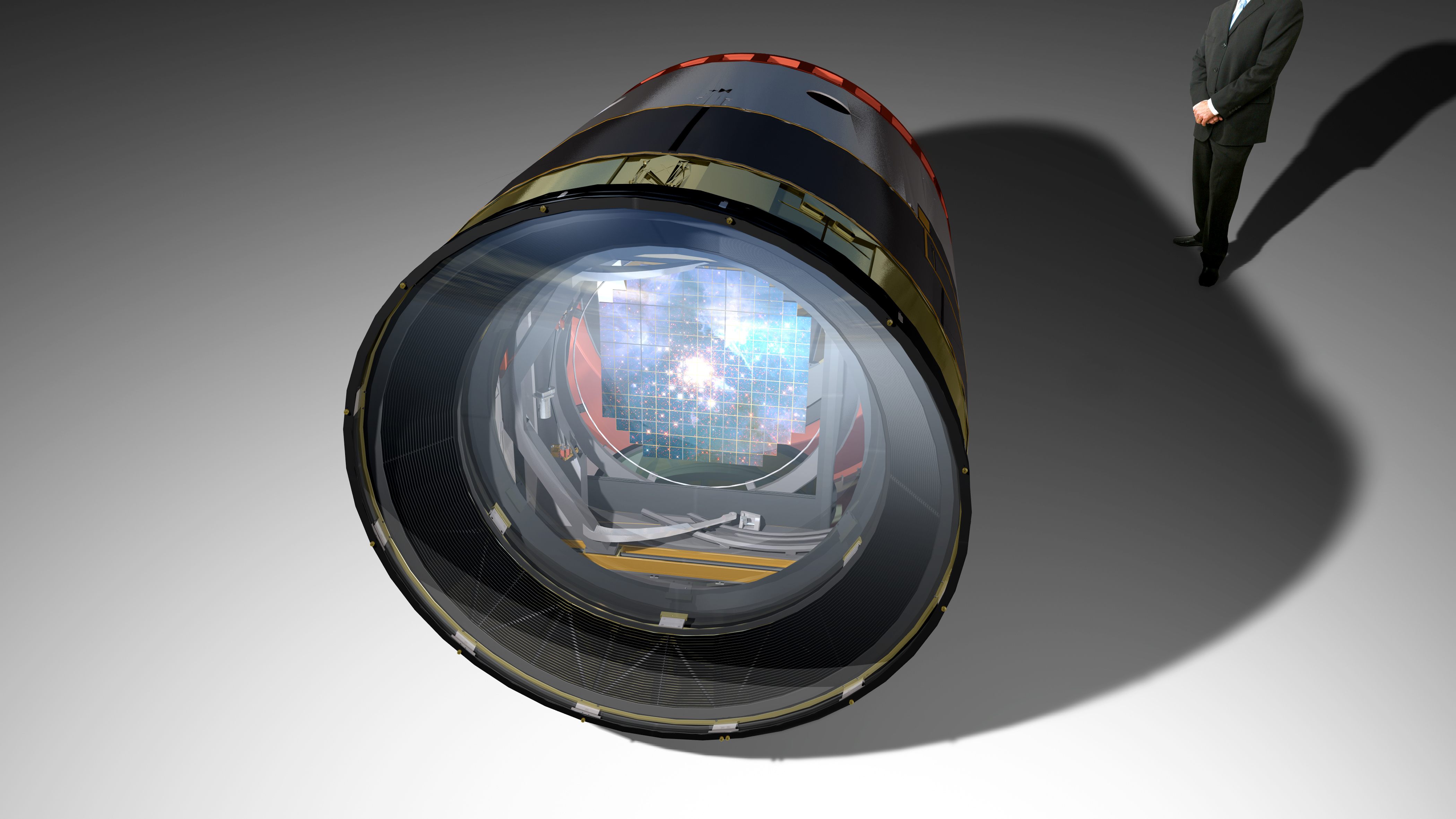 The LSST camera has 63-cm diameter focal place and 3.2 billion pixels of 0.2 arcseconds per pixel. Six filters are available, ugrizy, with 5 in the filter wheel at any given time.